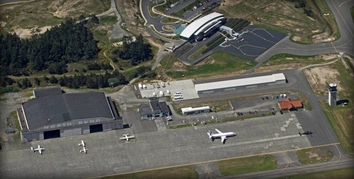 Southwest Oregon Regional Airport Hangar Area